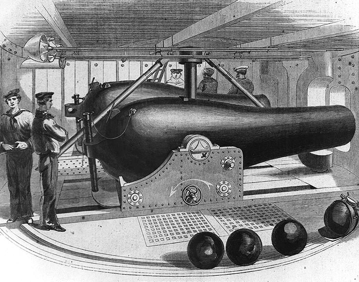 Line engraving published in "Harper's Weekly", 1862, depicting the interior of the ship's gun turret. Passaic was armed with two large Dahlgren smooth-bore guns: one XI-inch and one XV-inch. Note round shot in the foreground, that at right in a hoisting sling, and turning direction marking on the gun carriage. Original caption: "Photo # NH 58734 Interior of gun turret on USS Passaic"